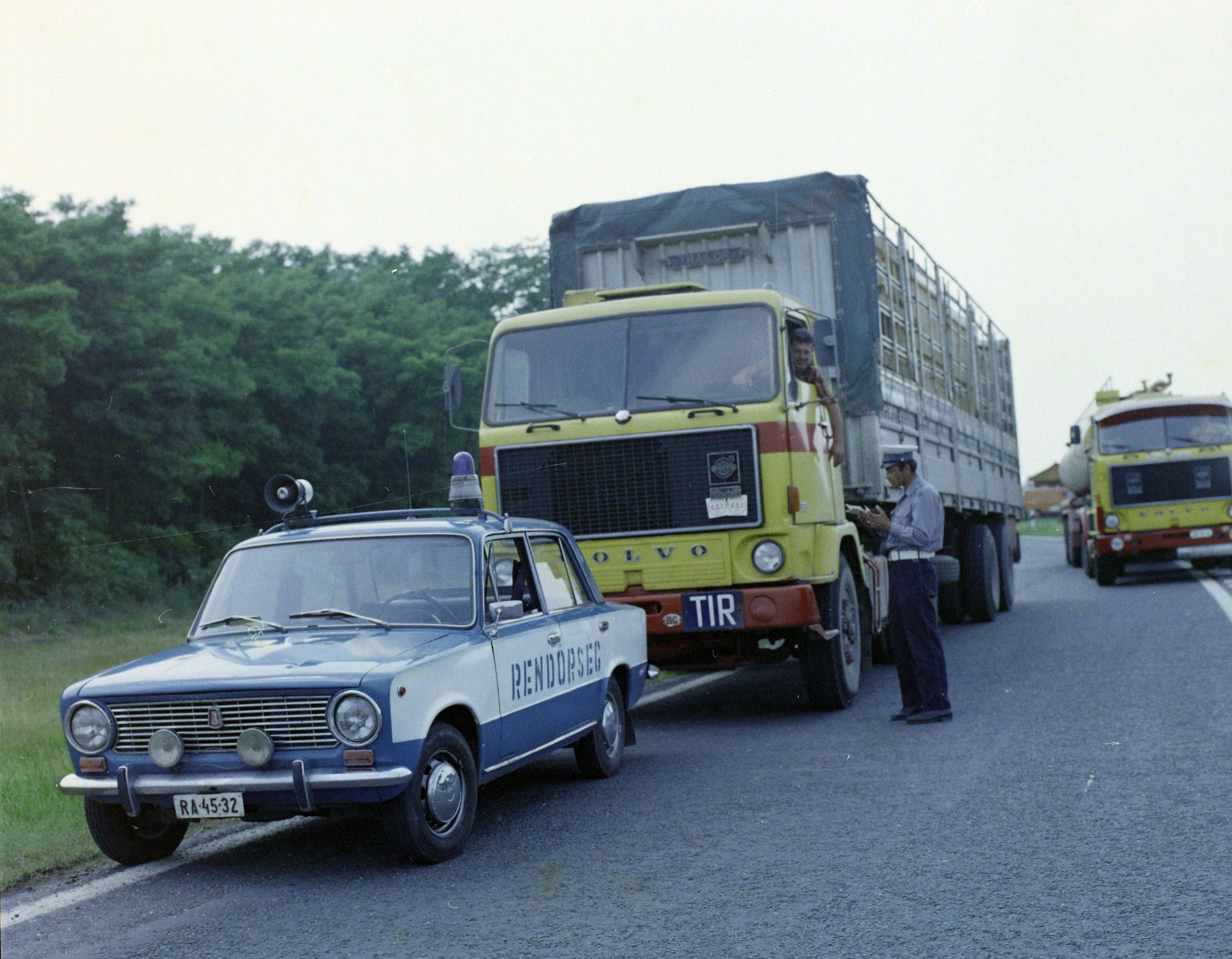 Location: Hungary Tags: police vehicle, Lada-brand, colorful, Volvo-brand, camion